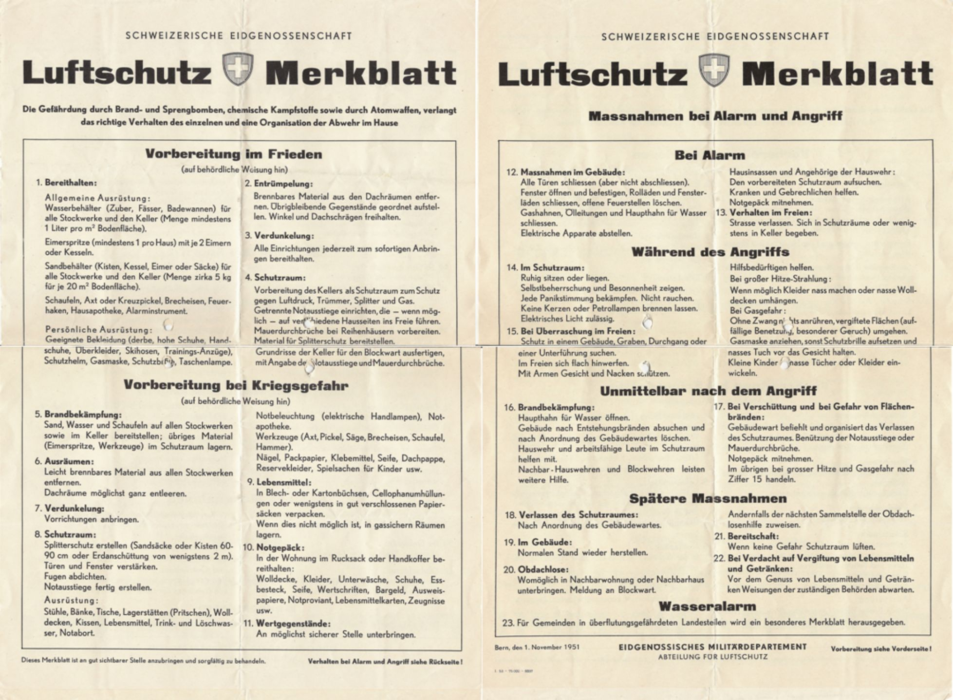 Air Raid Precautions, Switzerland, 1951